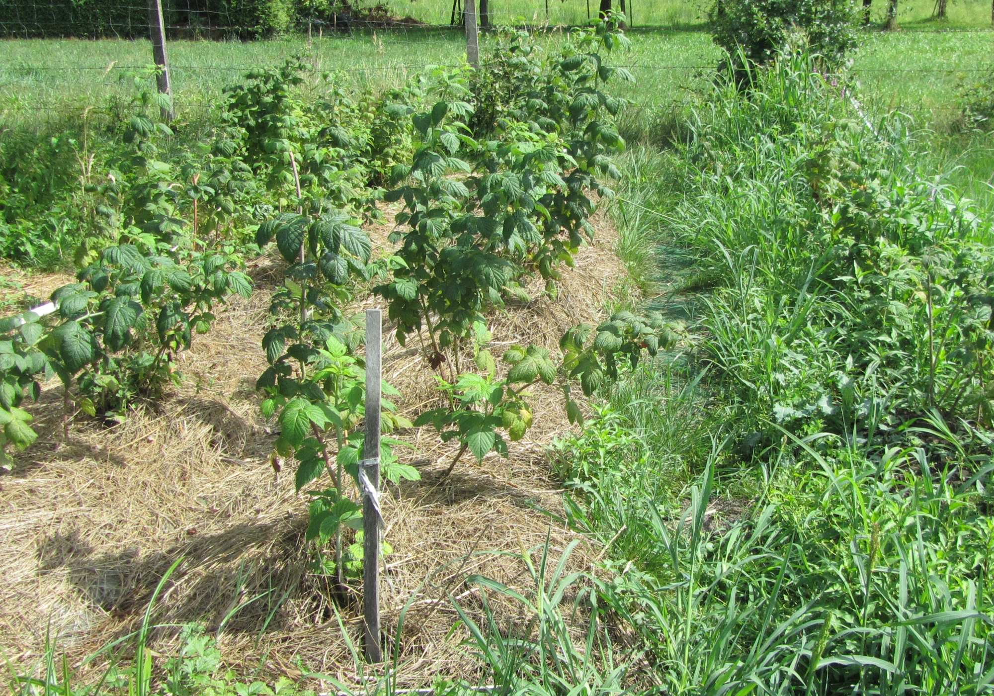 2 rows of raspberries with mulch, 3. row on the right side without mulch.